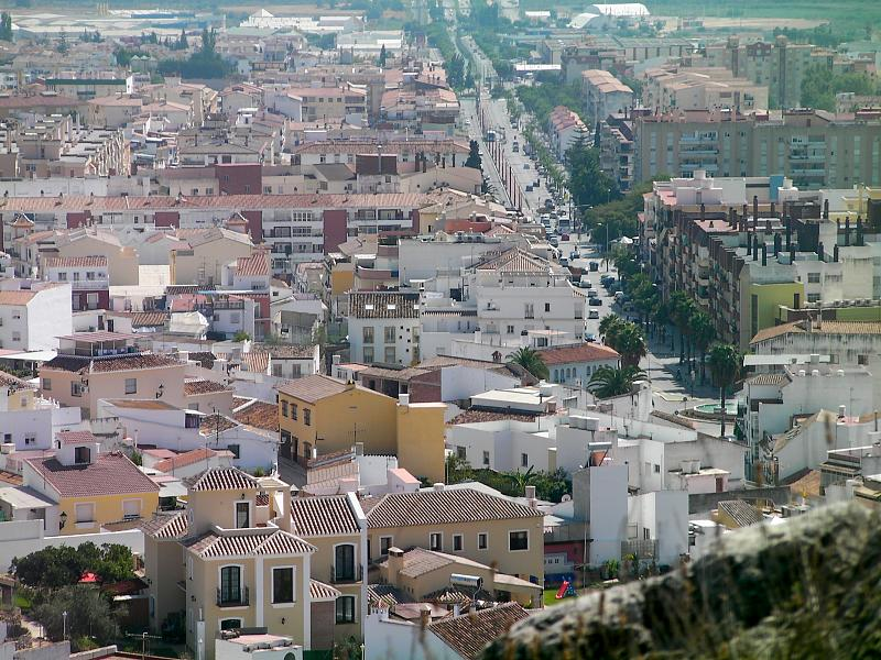 Vélez-Málaga, Spain